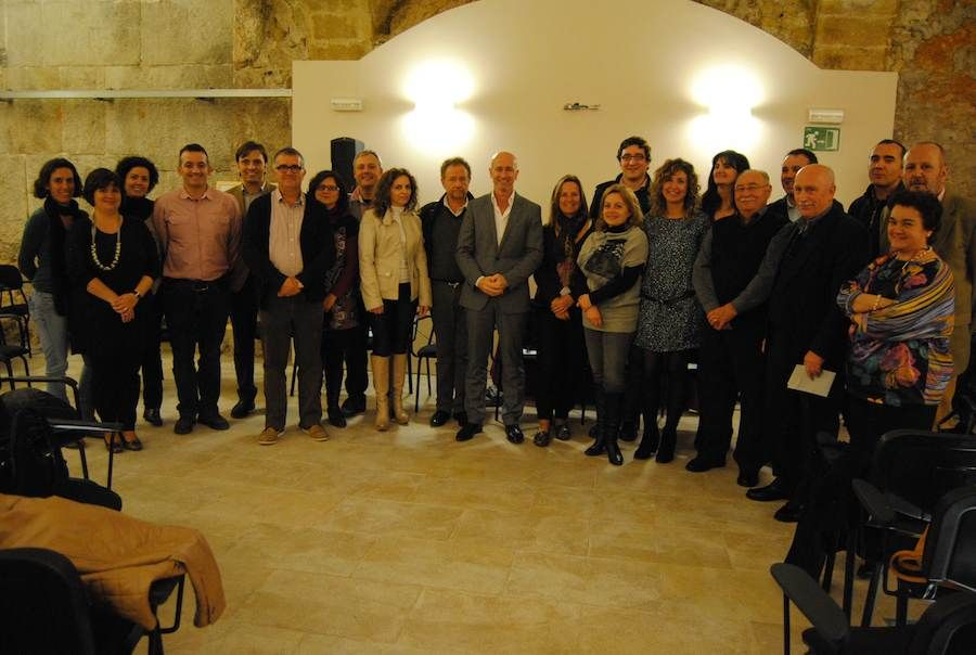 Photo of the constituent reunion of Xarxa pel Ramon Llull